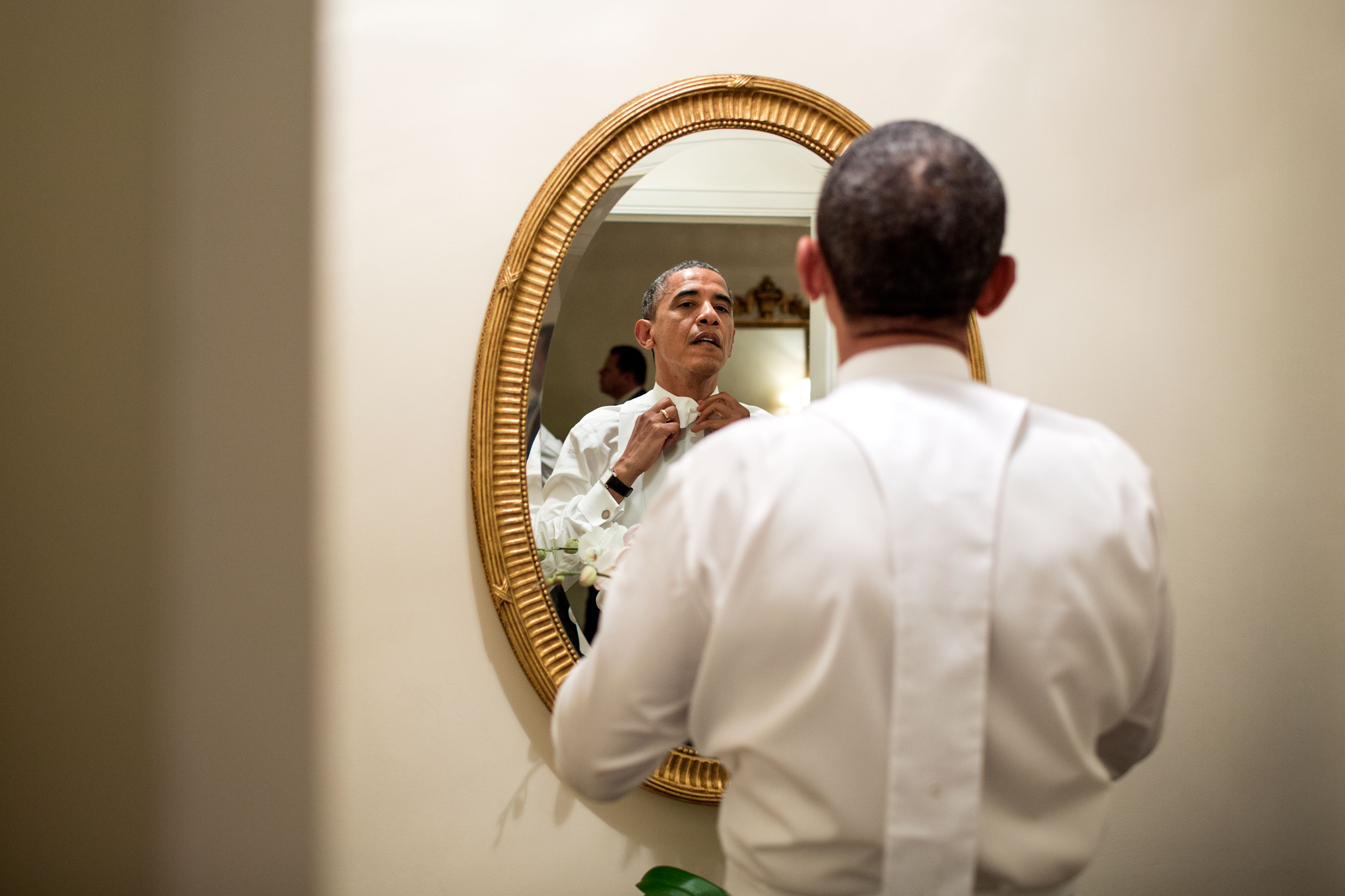 United States President Barack Obama ties his white tie before the annual Alfred E. Smith dinner in New York. While the dinner is an annual event, every four years, the two presidential nominees attend the dinner only a few weeks before the election.